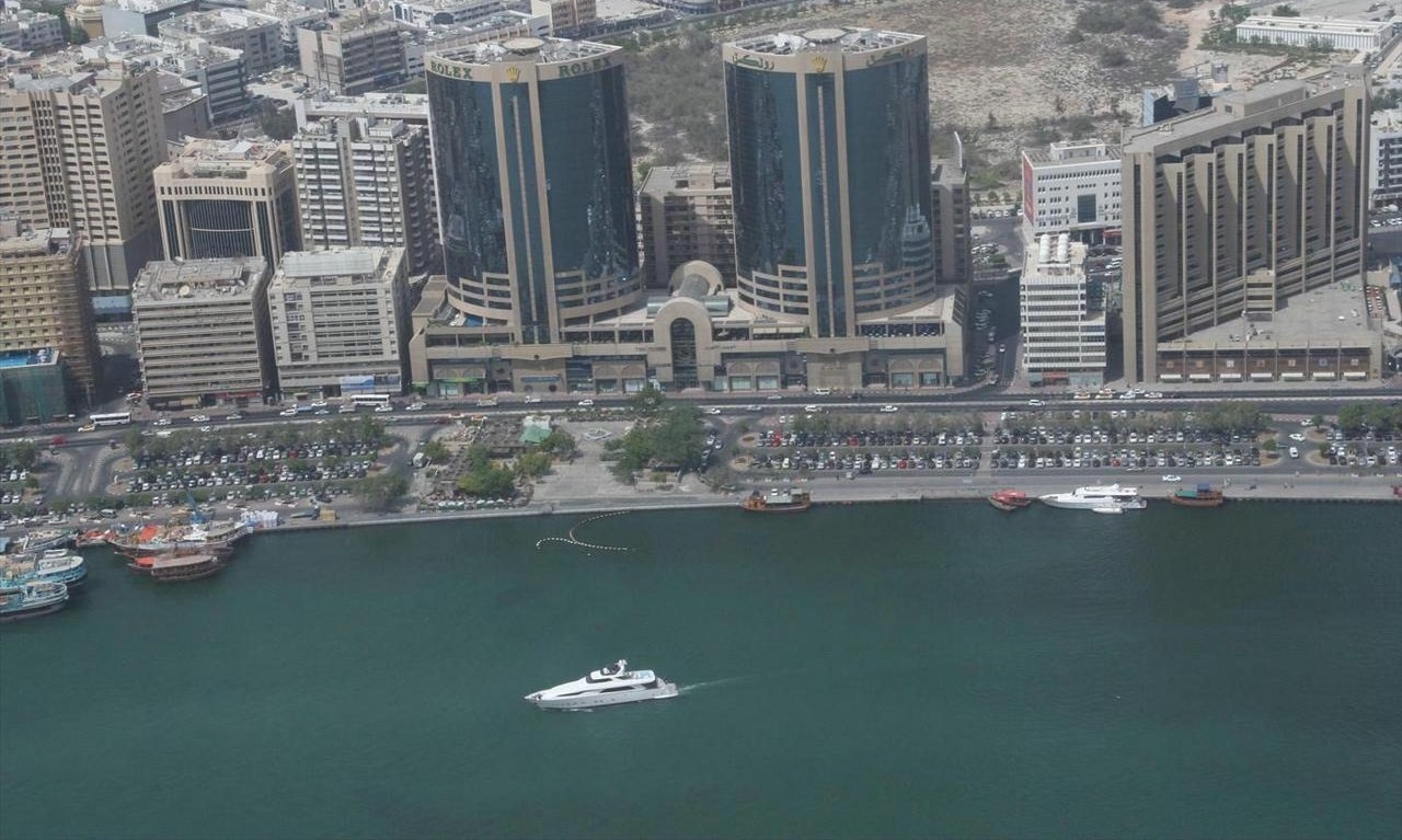 This is a photo showing the Twin Towers Deira along Dubai Creek in Deira, Dubai, United Arab Emirates as seen from the air on 1 May 2007. The Twin Towers Deira has become a symbol and landmark for Dubai since its completion in 1998.